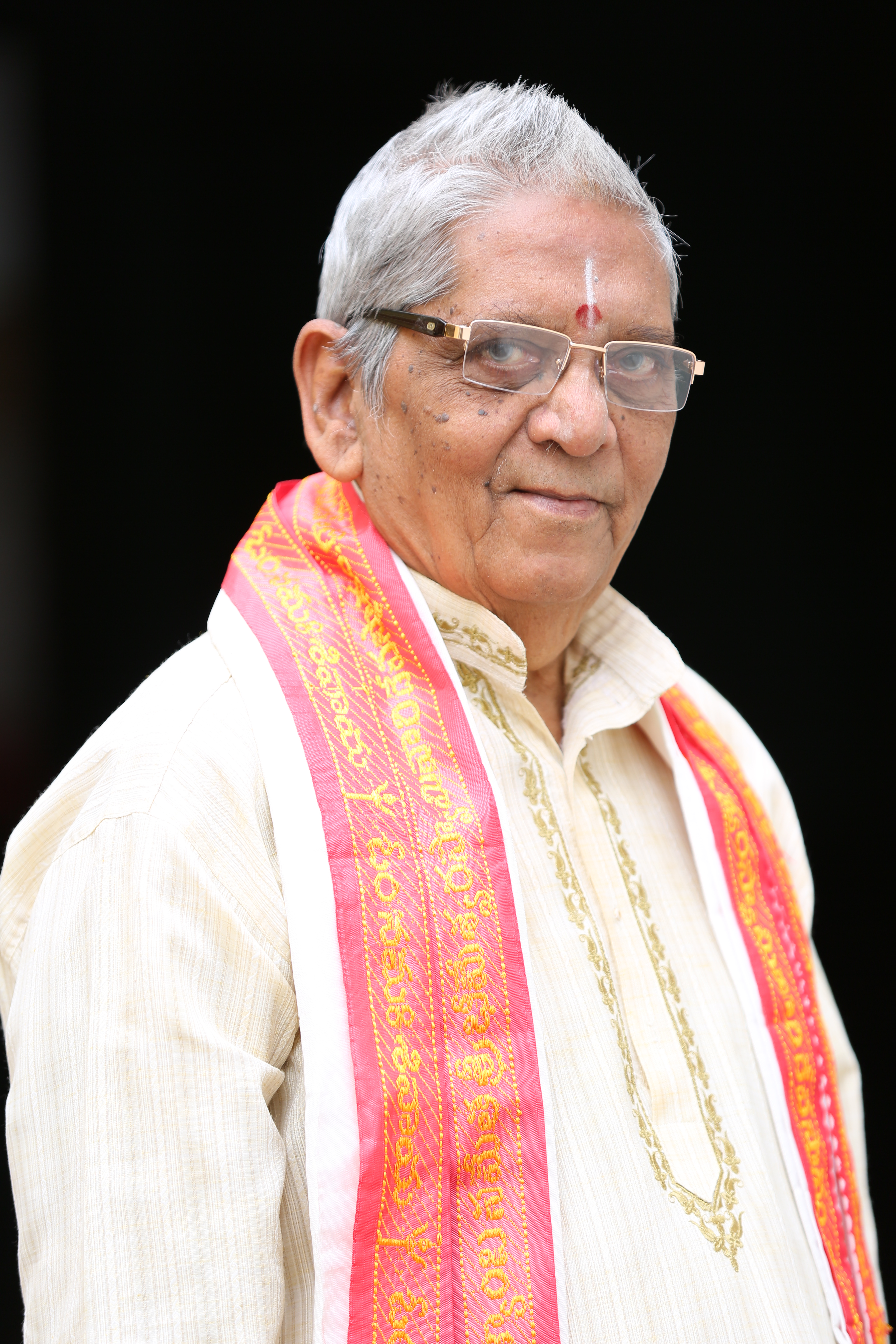 యాతగిరి శ్రీరామ నరసింహారావు, వ్యాసం లొకి